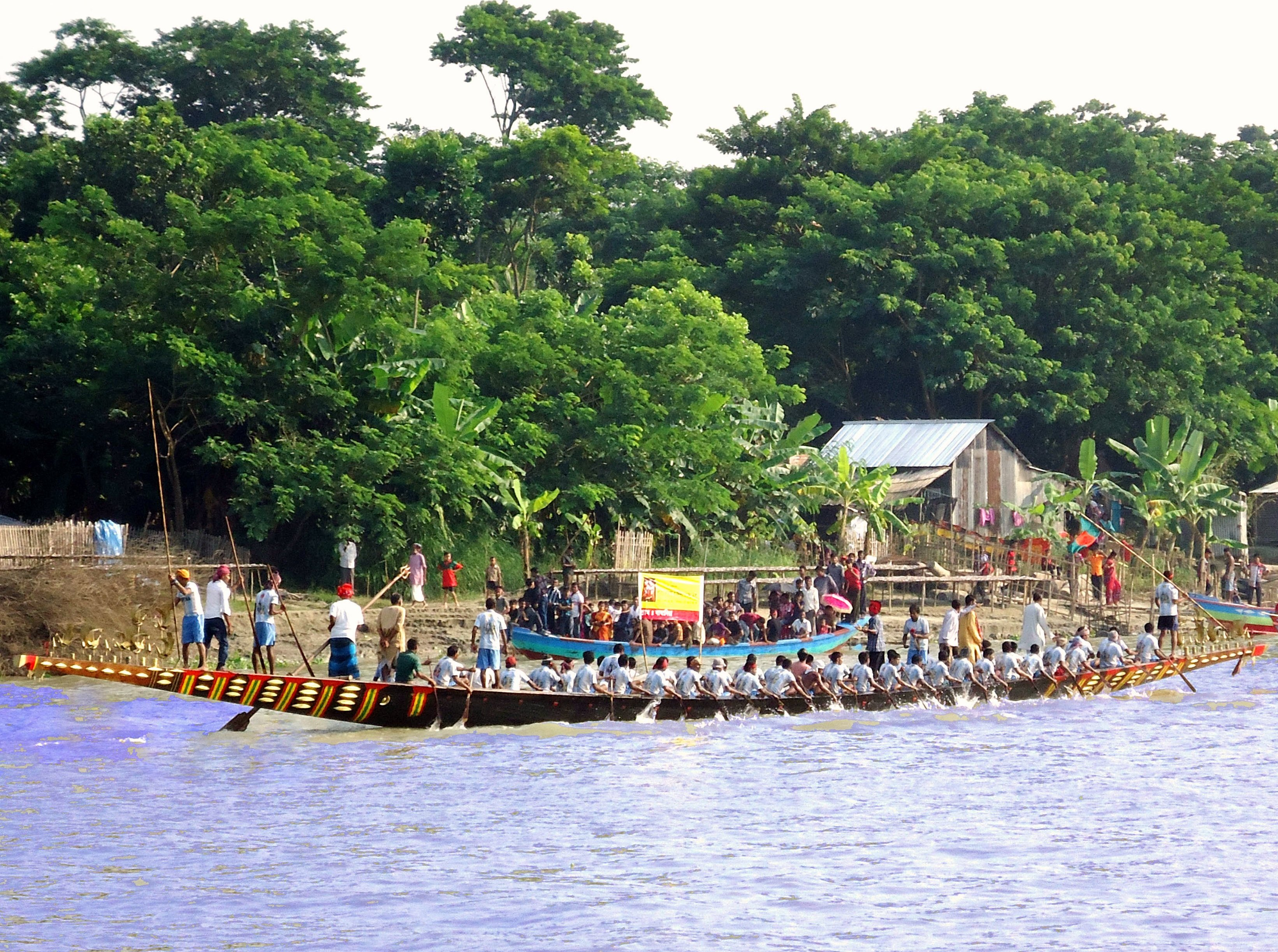 A simple picture of boat racing ( NOUKA BAICH) at modhumoti river .... a symbol of fun, competition and life.............